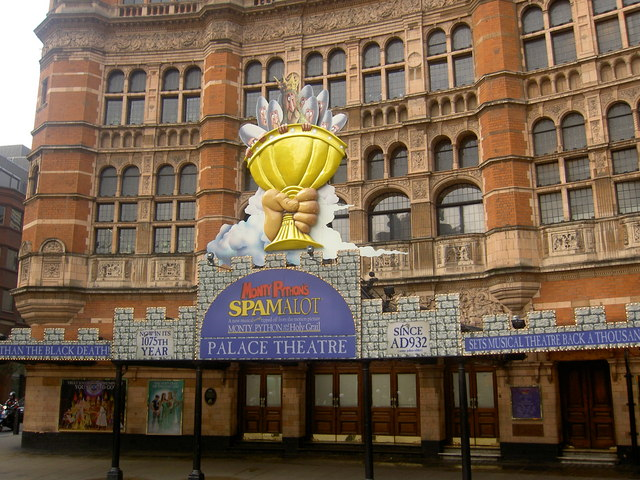 Monty Python's Spamalot At the Palace Theatre London.